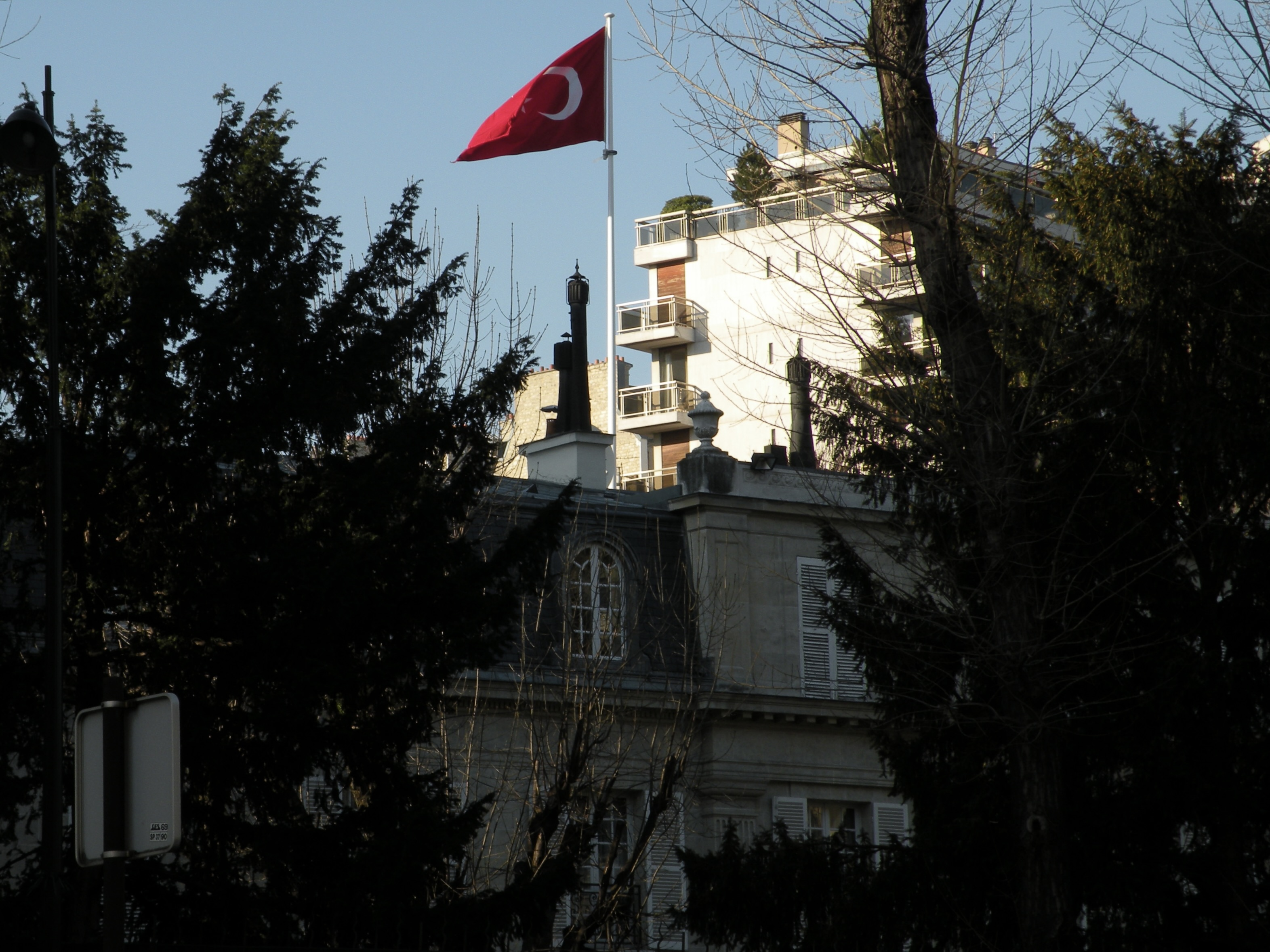 Turkish embassy in France, 16 avenue de Lamballe, Paris